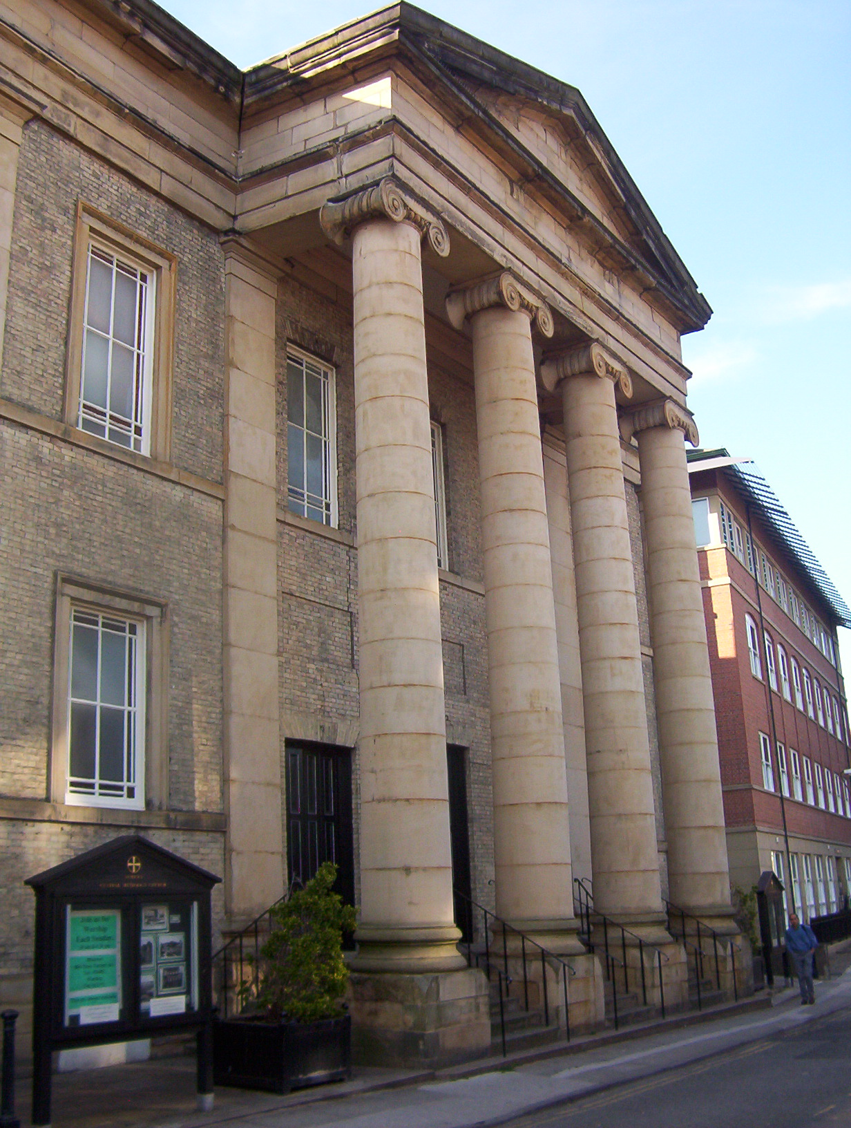 The front of Central Methodist Church, St Saviourgate, York, England, seen from the southwest